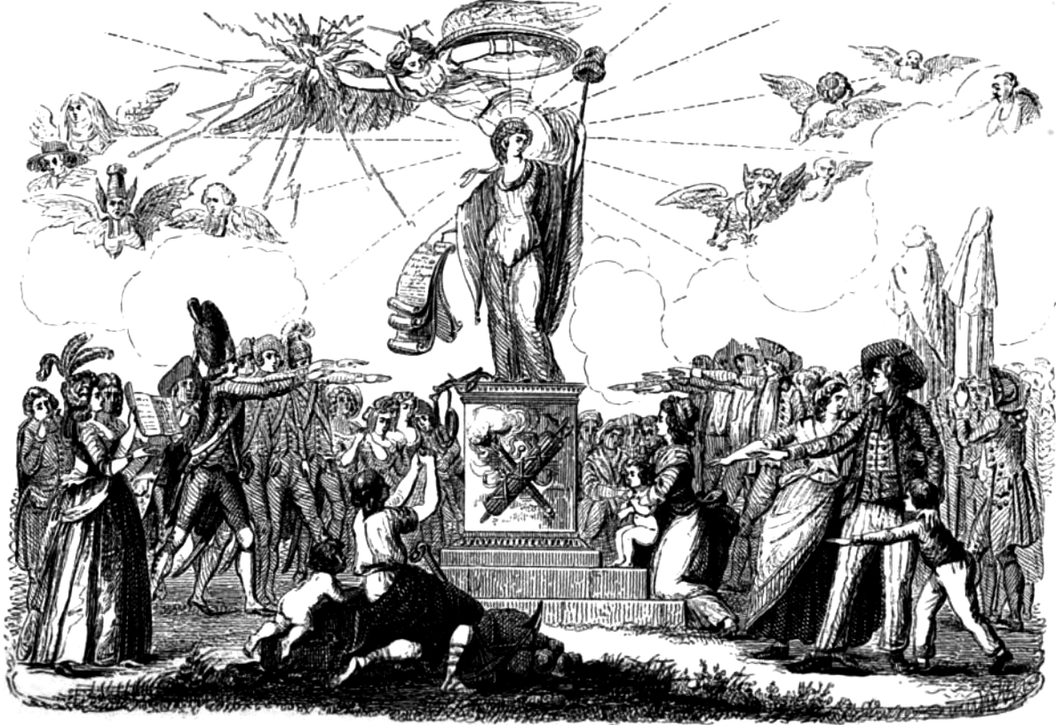 The Acceptance of the French Constitution of 1791.